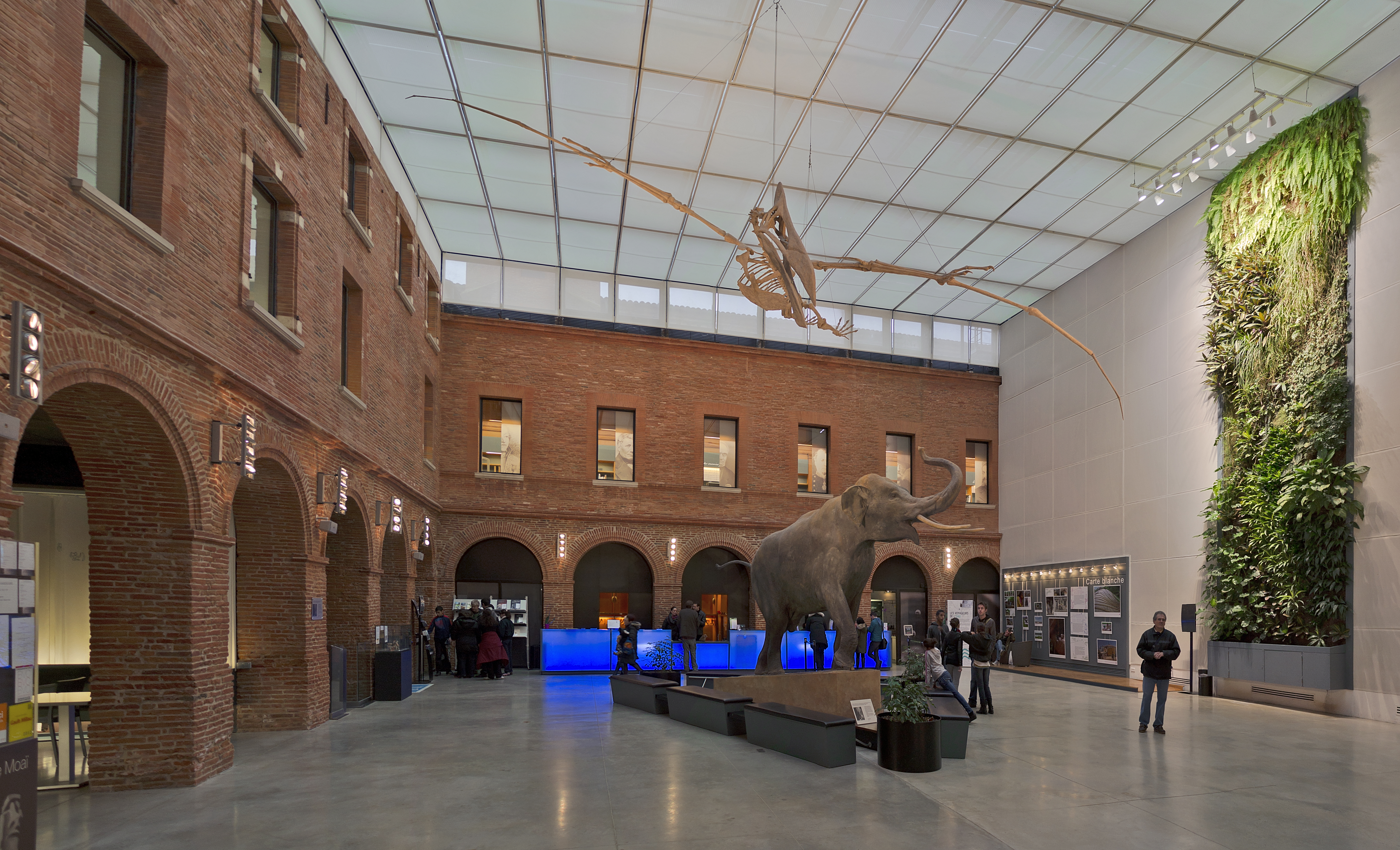 The Grand Square: Entrance Hall Museum, a former cloister of the monastery of the Carmelites. Toulouse, France.